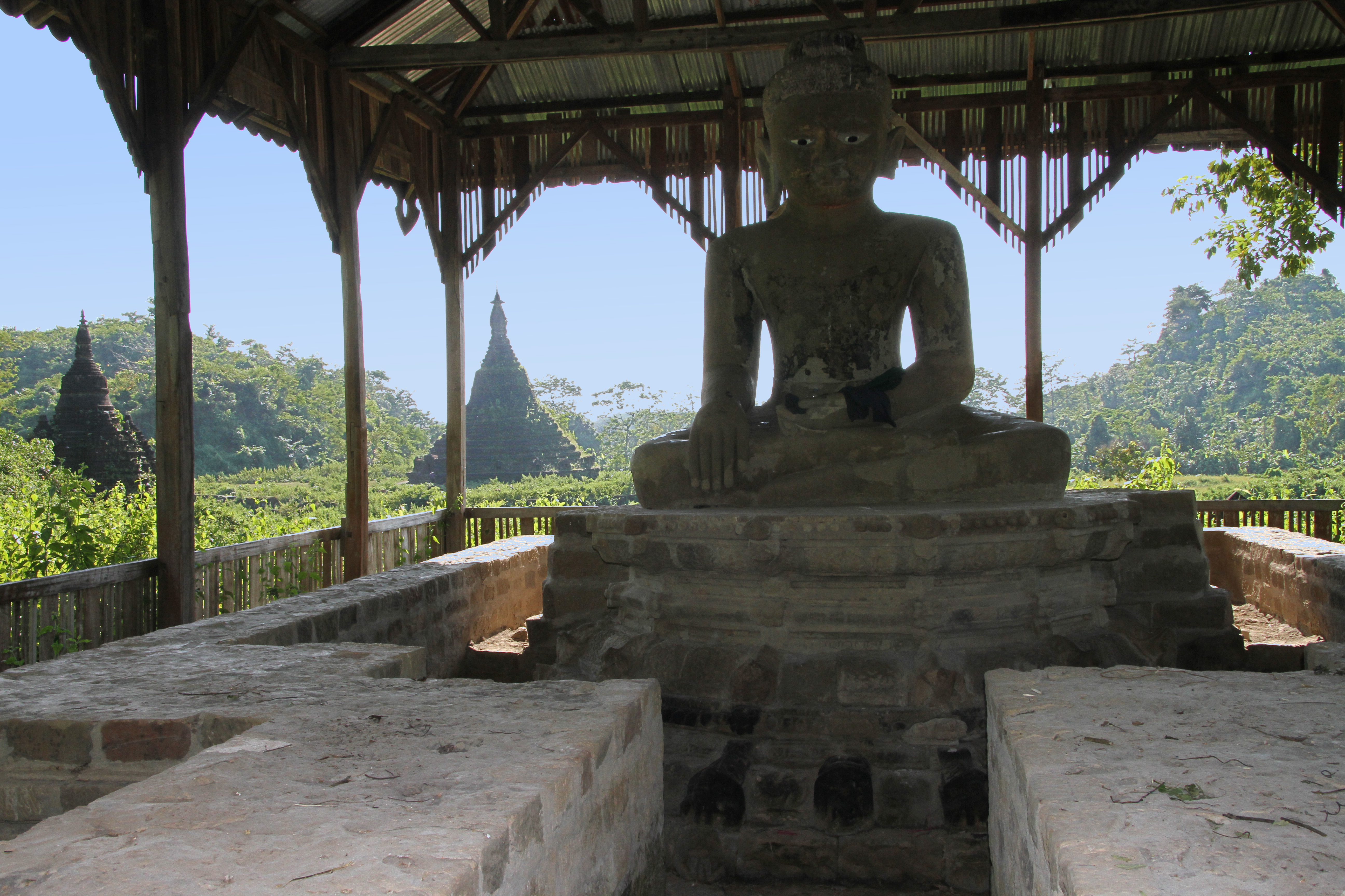 Anawma Pagoda in Mrauk U, old capital in the Rakhine State in Myanmar.